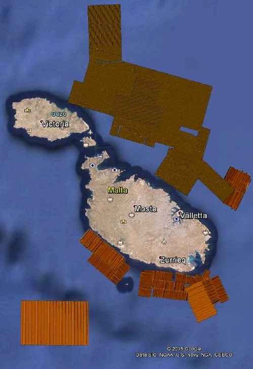 Bluefin 12 mapping of seabed around Malta done by project crew of Octopus